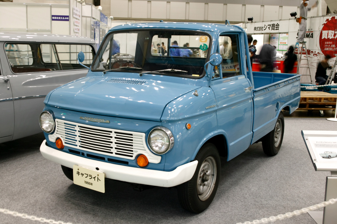 Datsun Cablight Truck ( 1966 )